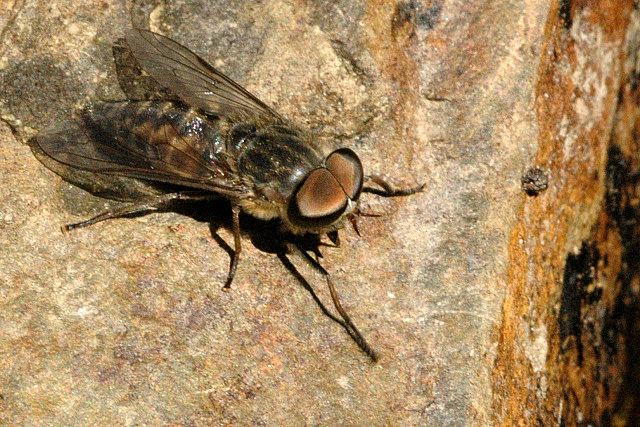 Picture taken in Commanster, Belgian High Ardennes . Species: male Tabanus bovinus